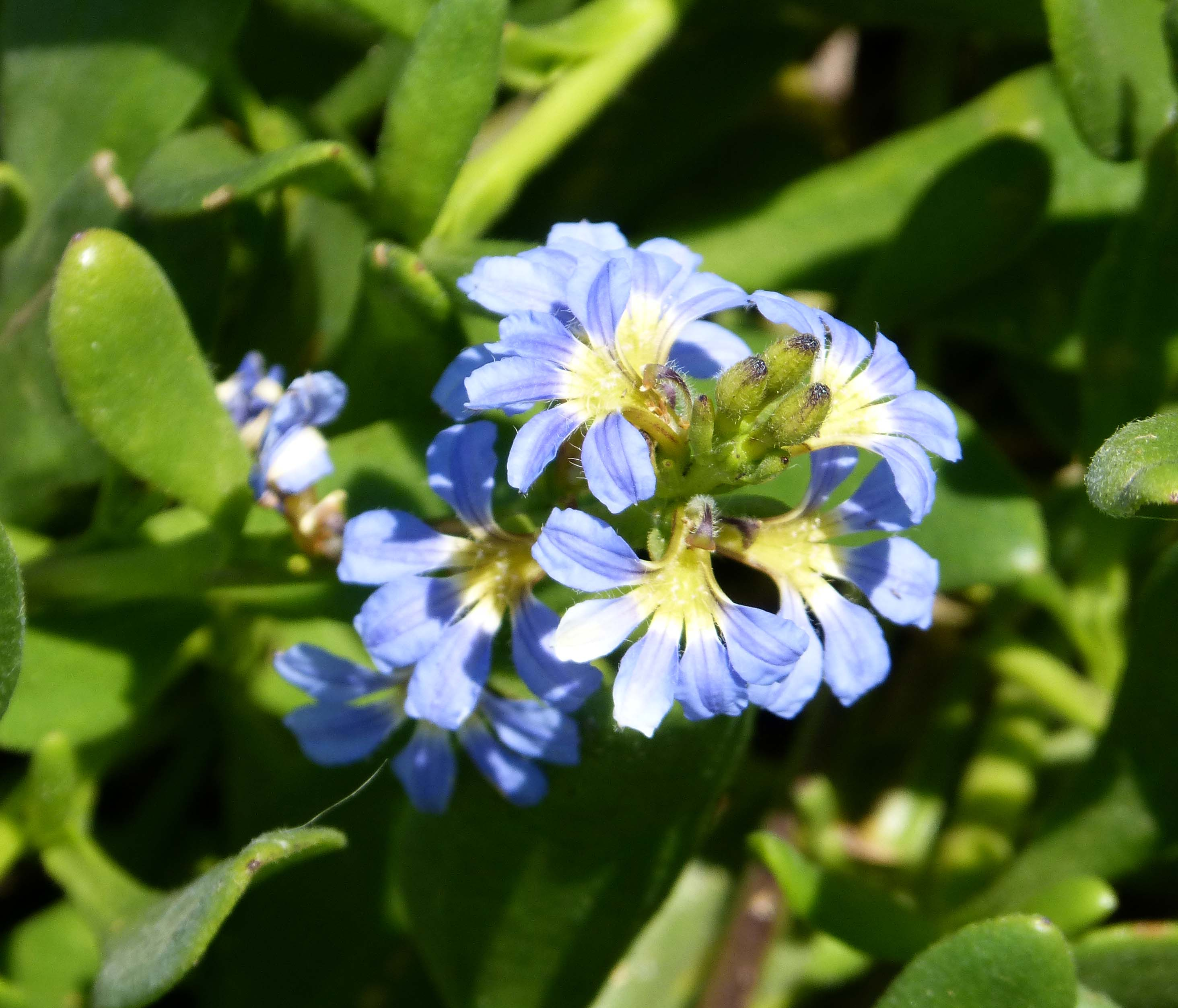 Margate. Brisbane. QLD